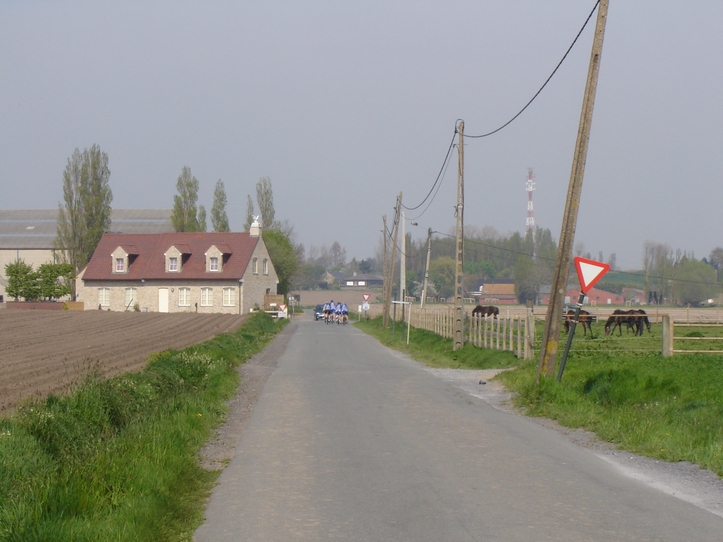 De Steenstraat street, forming the border between the municipalities of Koekelare (right) and Kortemark (left). Looking in the direction of the crossing with the Kortemarkstraat/Koekelarestraat street, and the Ruidenberg height. Koekelare and Kortemark, West-Flanders, Belgium